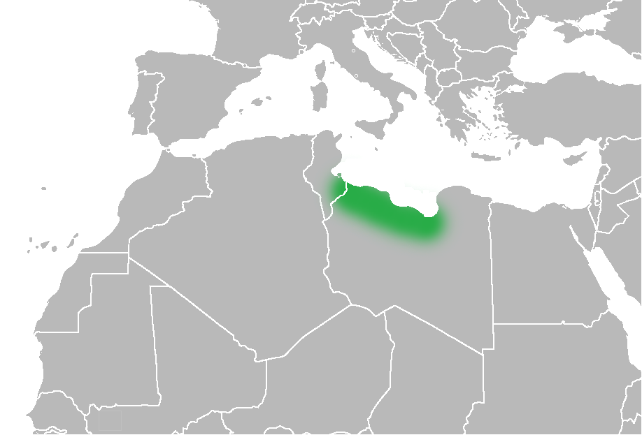 "United States of North Africa" (proposal by President Habib Bourguiba for Tunisia, Algeria and Libya 1973) and "Arab Islamic Republic" (proposal by Muammar al-Gaddafi for a union between Libya and Tunisia 1972/74) The Ottoman Turks conquered the country in the mid-16th century, and the three States or "Wilayat" of Tripolitania, Cyrenaica and Fezzan (which make up Libya) remained part of their empire with the exception of the virtual autonomy of the Karamanlis. The Karamanlis ruled from 1711 until 1835 mainly in Tripolitania, but had influence in Cyrenaica and Fezzan as well by the mid 18th century.